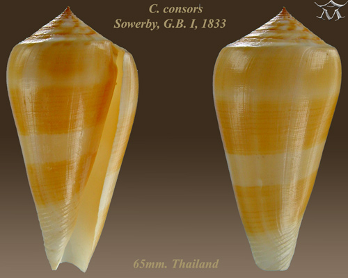 Conus consors 2